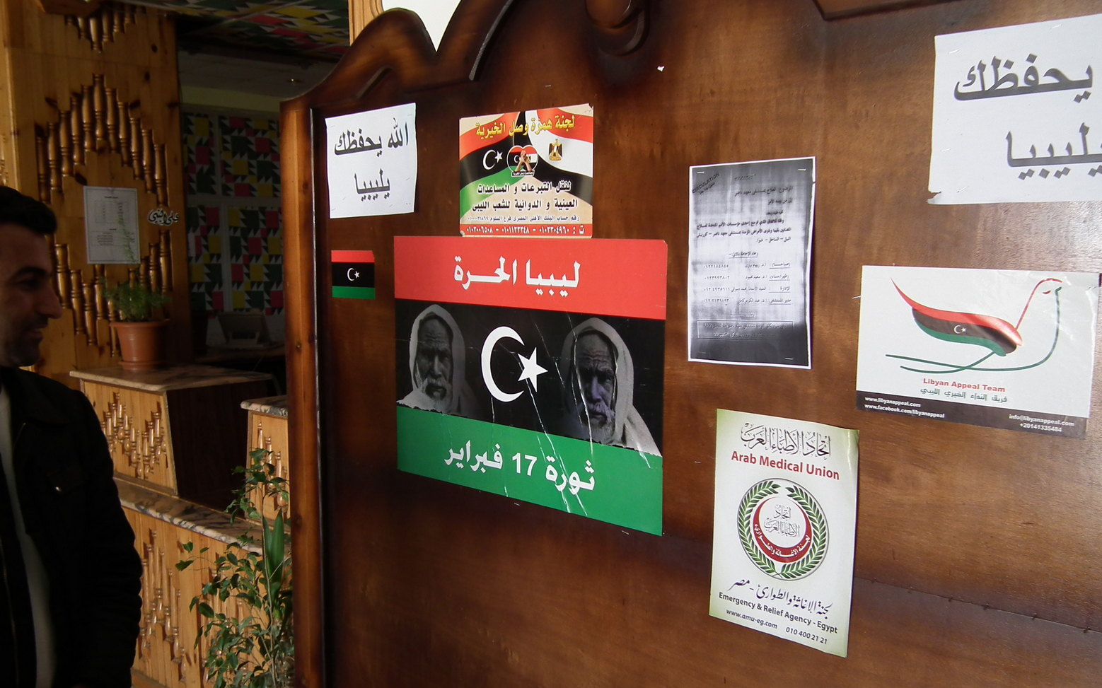 Banner for the February 17 (2011) uprise, using an old portrait of Omar Muchtar as a symbol for national unity. Picture taken in the 'Camel' Hotel, close to the Egypt-Libya border.